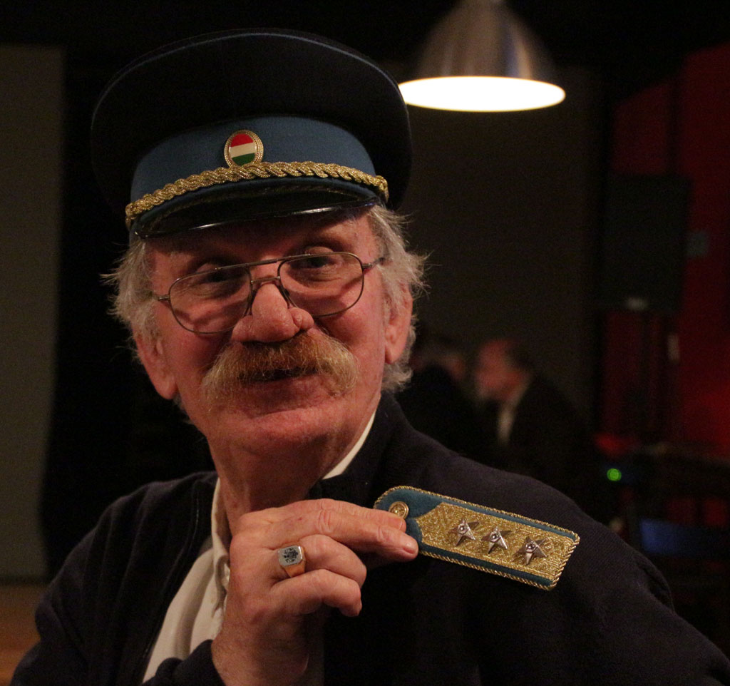 Dénes Ujlaki (20 January 1931, Budapest, Hungary –) is a Jászai Mari Prize-winning Hungarian actor